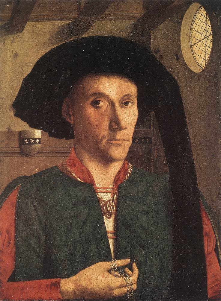 Edward Grimston was a diplomat in the service of Henry VI, King of England. He holds a chain of linked SSs, a Lancastrian device, in his hands. On the wall of the room behind him are two shields with his coats of arms.